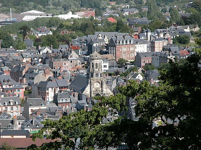 A view of St Leonard's church in Honfleur, from the Mont-Joli.